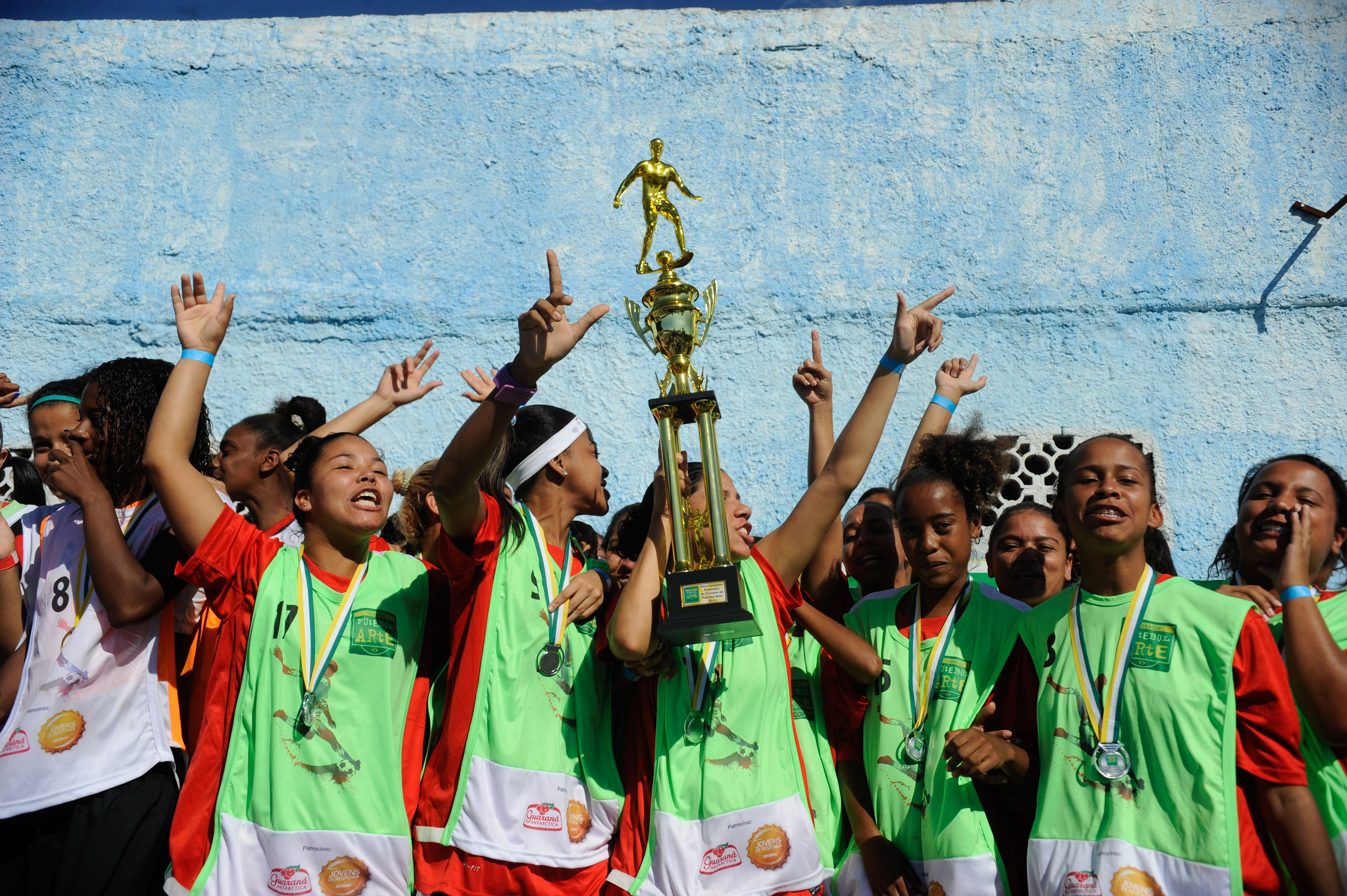 Photo by Tânia Rêgo/Agência Brasil CCBY3.0